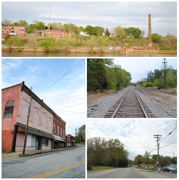 Photos I took around Piedmont, SC